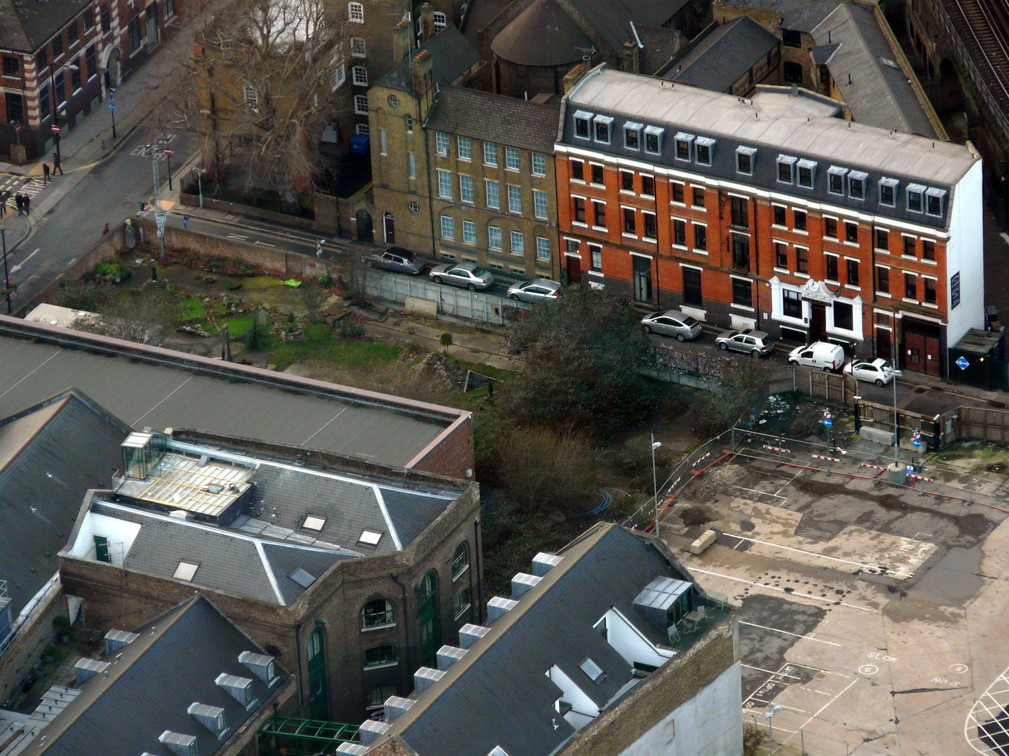 Cross Bones disused graveyard, Southwark, London, January 2013